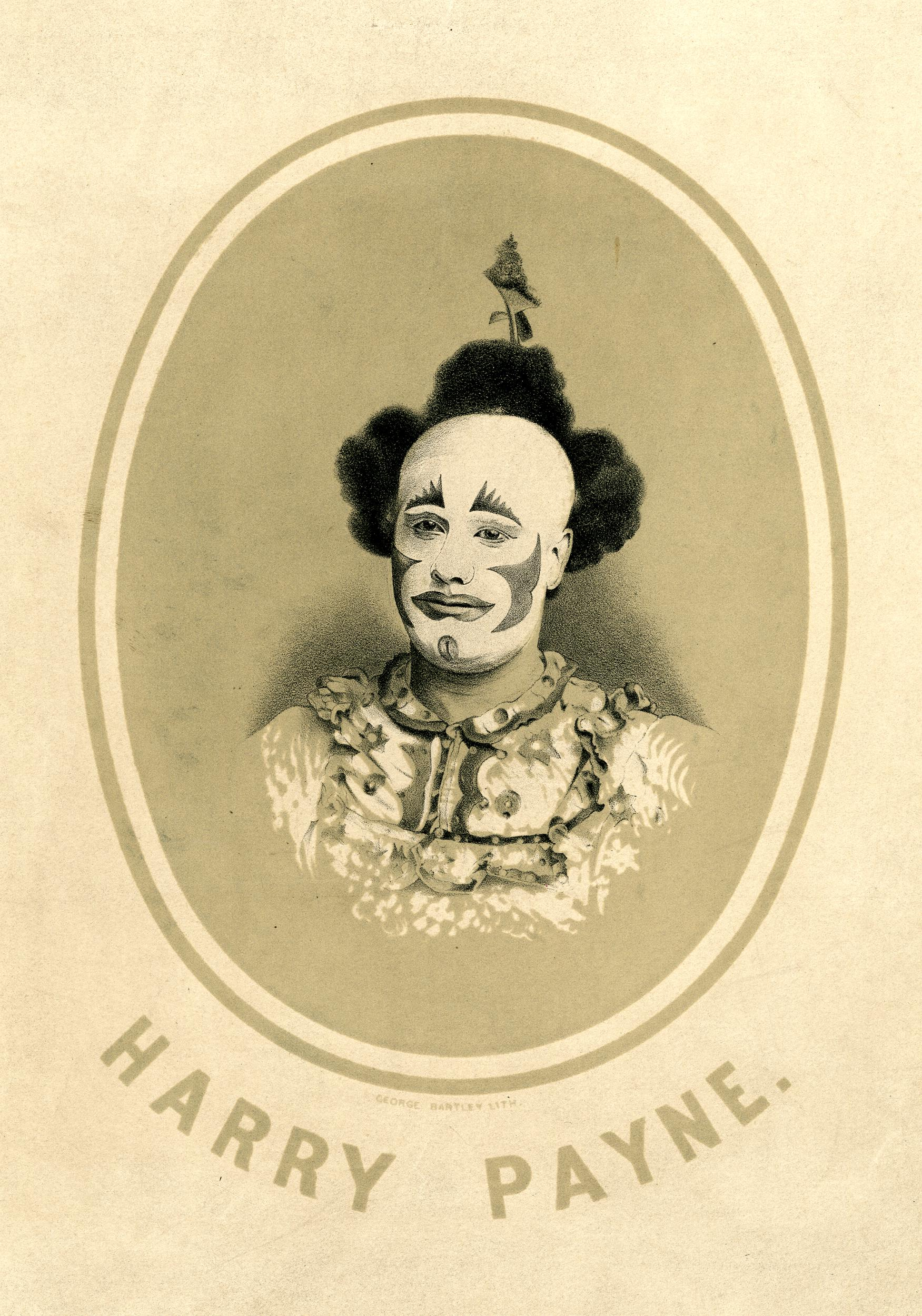 Portrait of the Harlequinade Clown Harry Payne; bust, looking to the left, dressed as Clown, in oval. Lithograph with tint stone